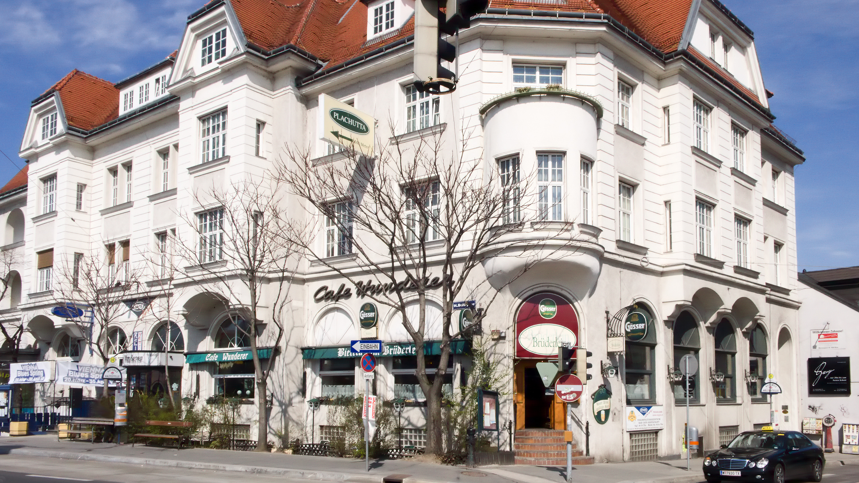 Café Wunderer in Vienna Penzing